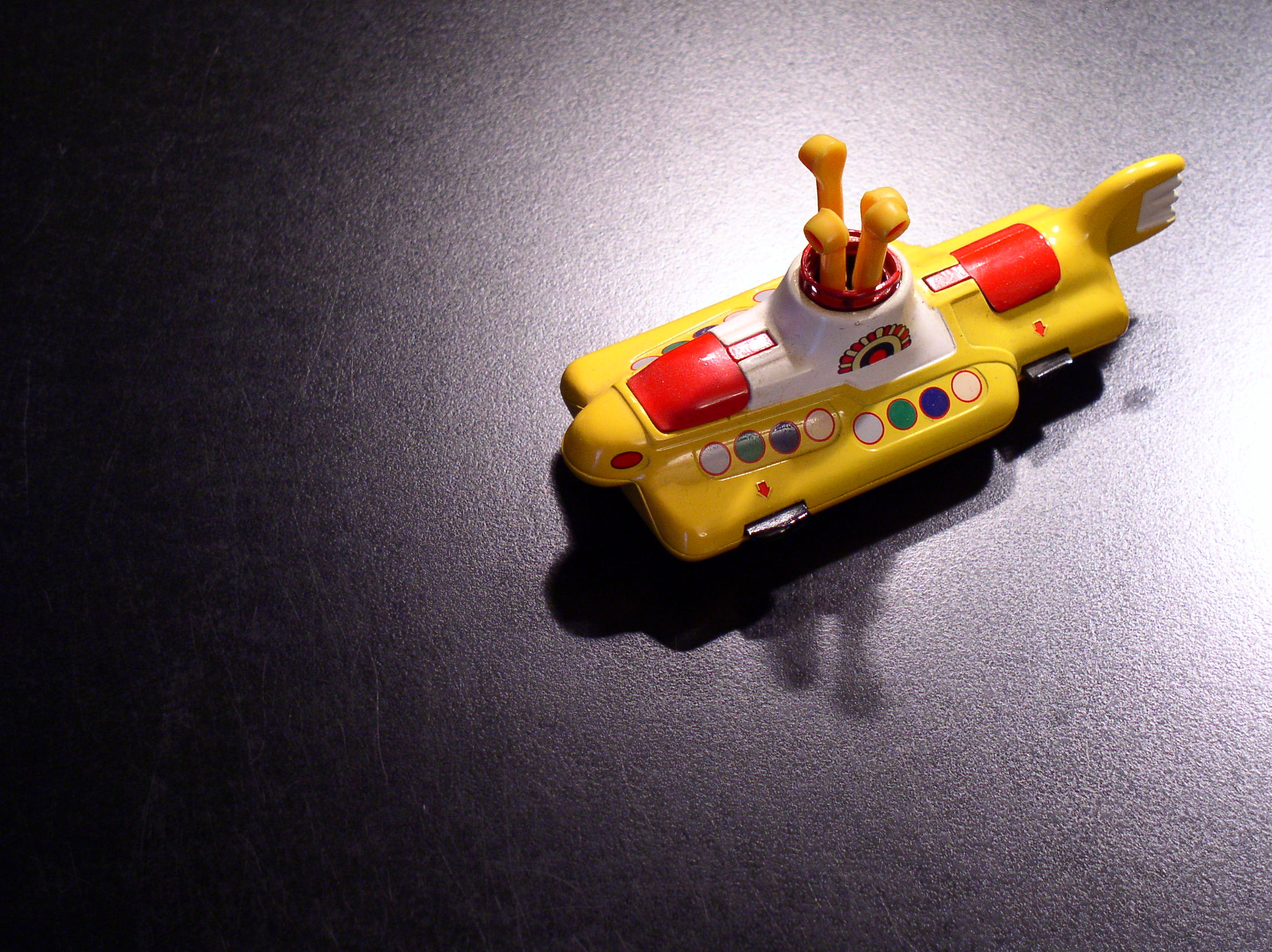 “Yellow Submarine in the Sea of Grey” – Corgi Classics Nº 05403: The Beatles – Yellow Submarine toy model, re-issue of 1999, photographed on a black desktop mat. Light sources: four softened LED spots from above (ceiling lamps, warm white), several white LED torches. Post processing: sharpness, saturation, scale-down by 50 % Corgi® is a registered trademark of Corgi Classics Ltd., Great Britain. The Beatles and Yellow Submarine are trademarks of the respective proprietary owners